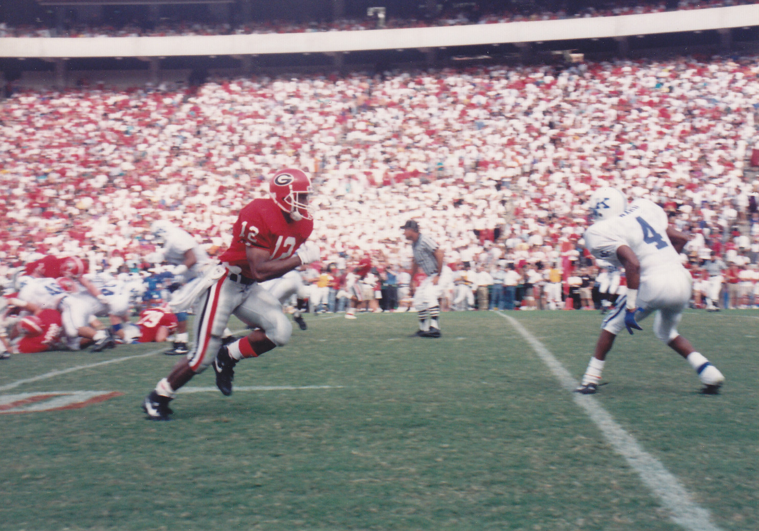 University of Georgia wide receiver - Arthur Marshall